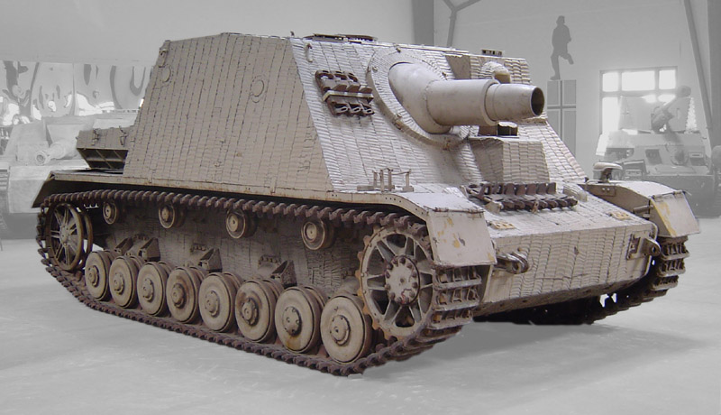 Sturmpanzer on display at the Musée des Blindés in Saumur. The picture taken August 8, 2006.